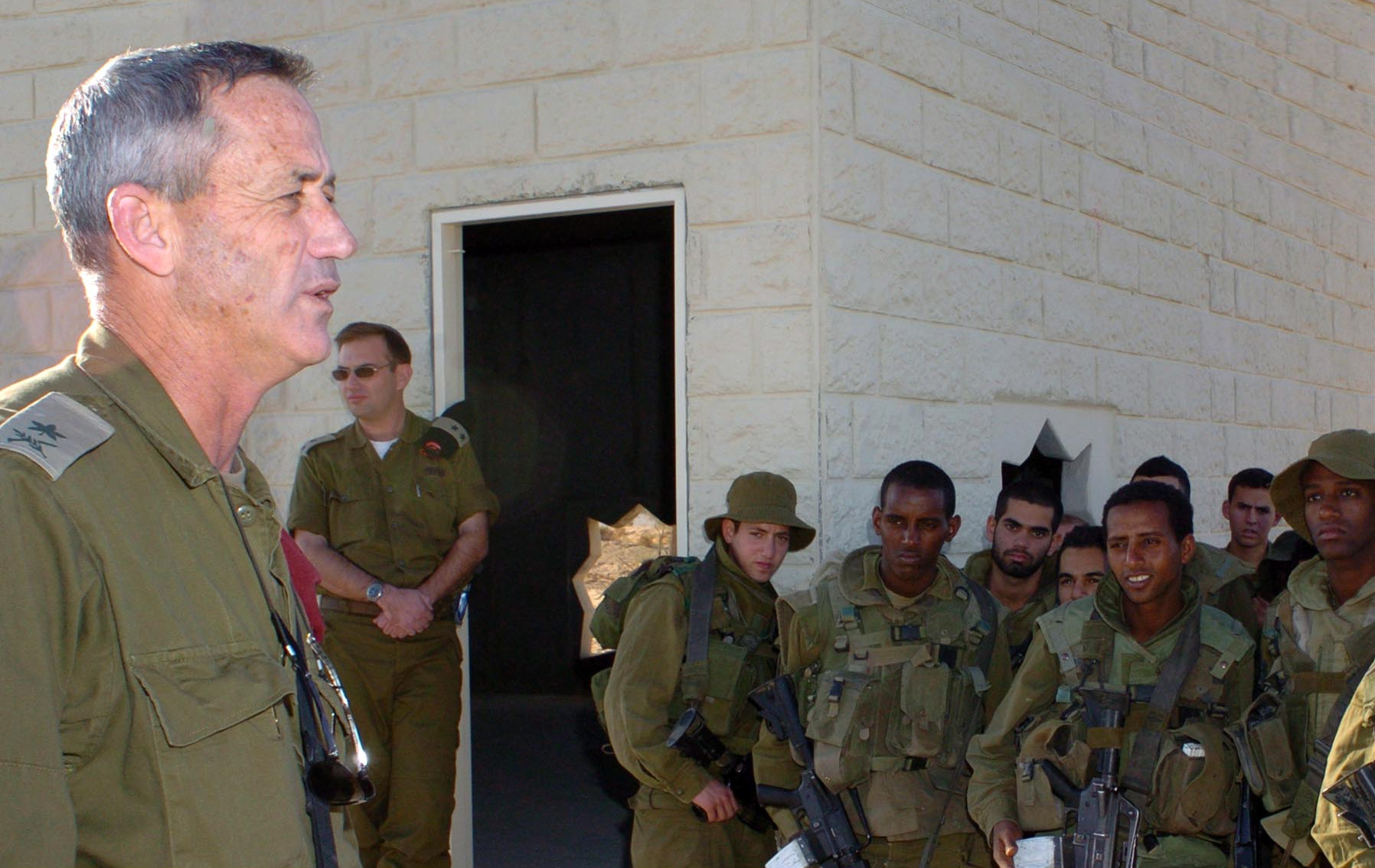 The Chief of the Ground Forces at the time, Maj. Gen. Benny Gantz, meets with soldiers in basic training from the Paratroopers Unit. "In 2007 we will put drilling at the top of our priority list for soldiers in mandatory service and those in reserves."